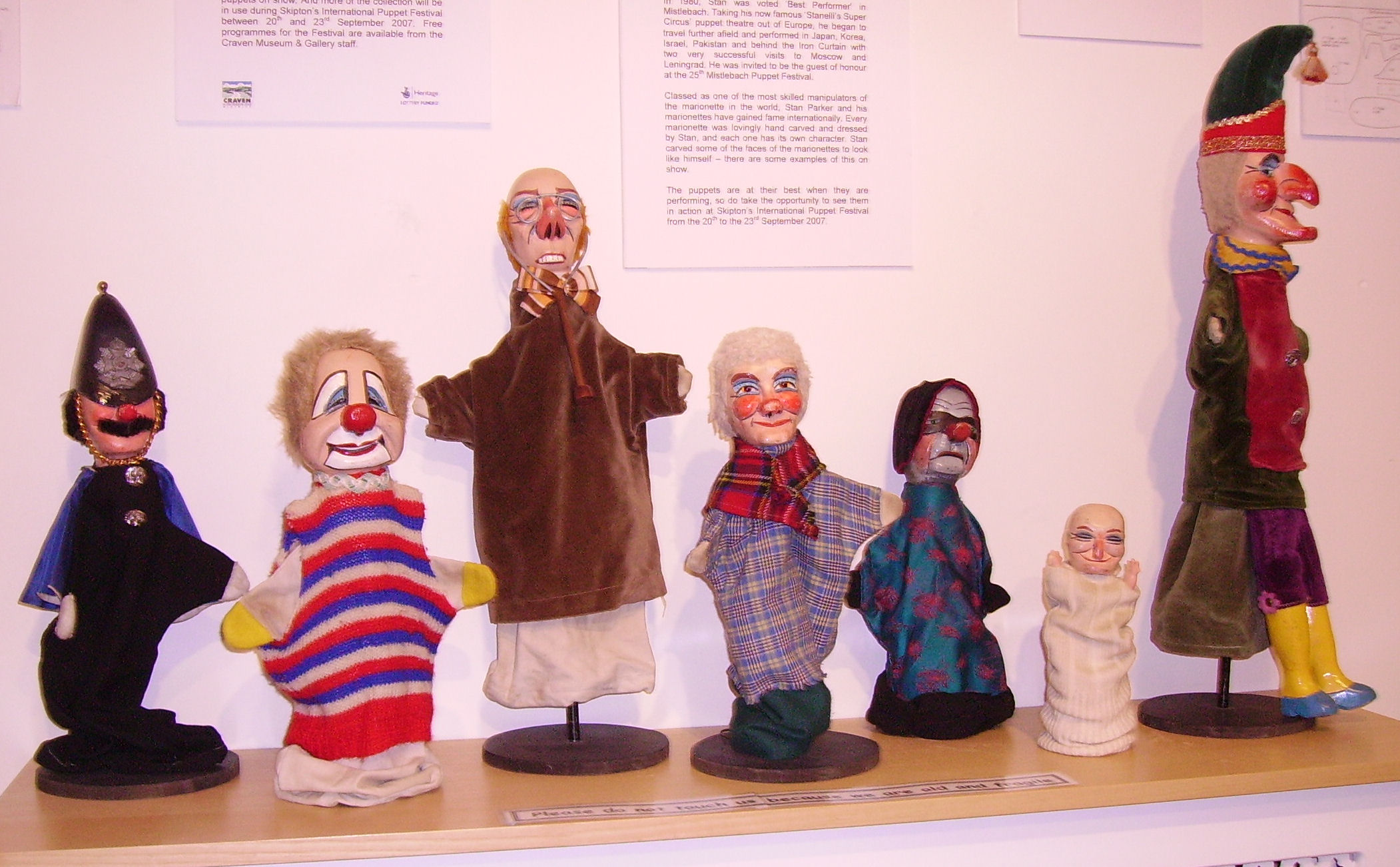 view of puppets in museum in Skipton, United Kingdom